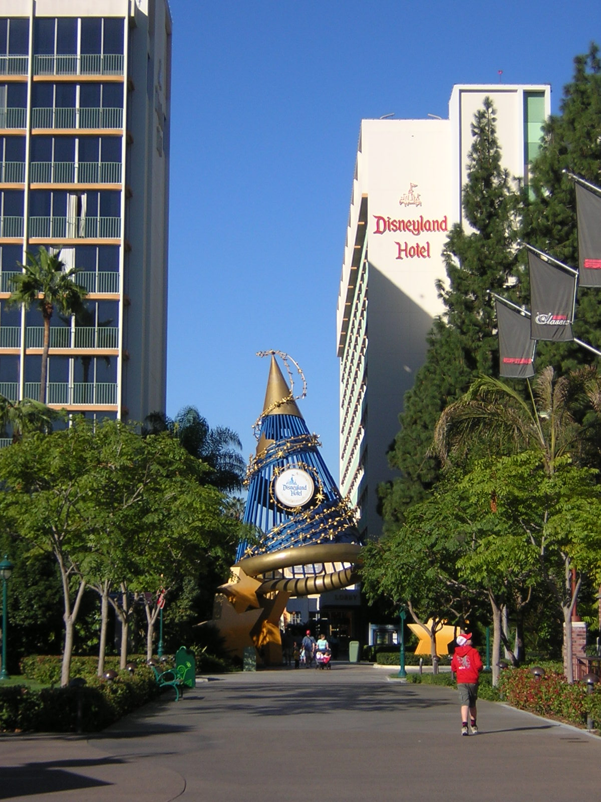 A scene from Disneyland, an amusement park located in Anaheim, California in the metropolitan Los Angeles area. Disneyland is owned and operated by The Walt Disney Company. This is a view of the Disneyland Hotel on the west side of the park, looking from Downtown Disney. The towers shown are Marina (right) and Sierra.